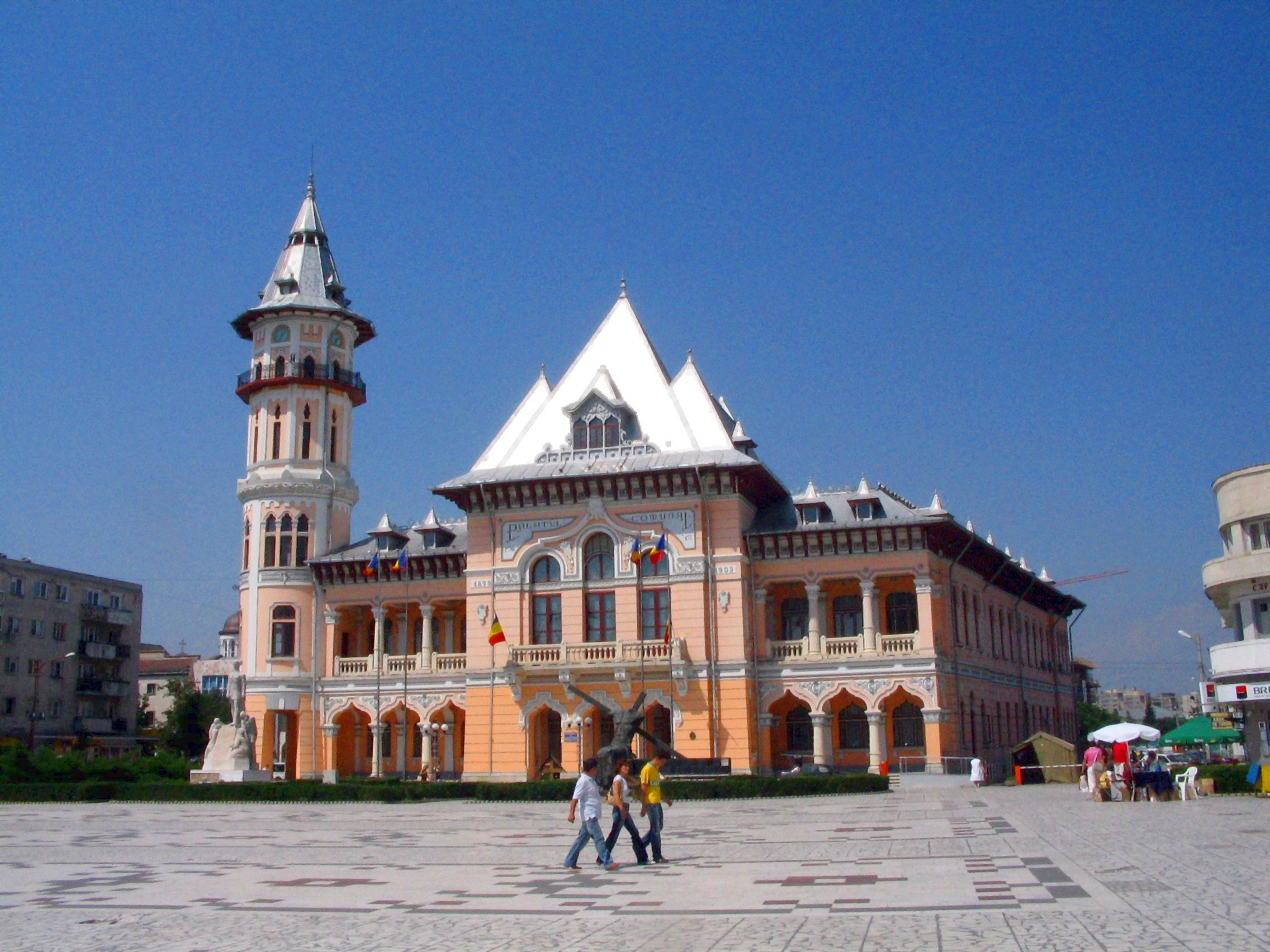 The Communal Palace